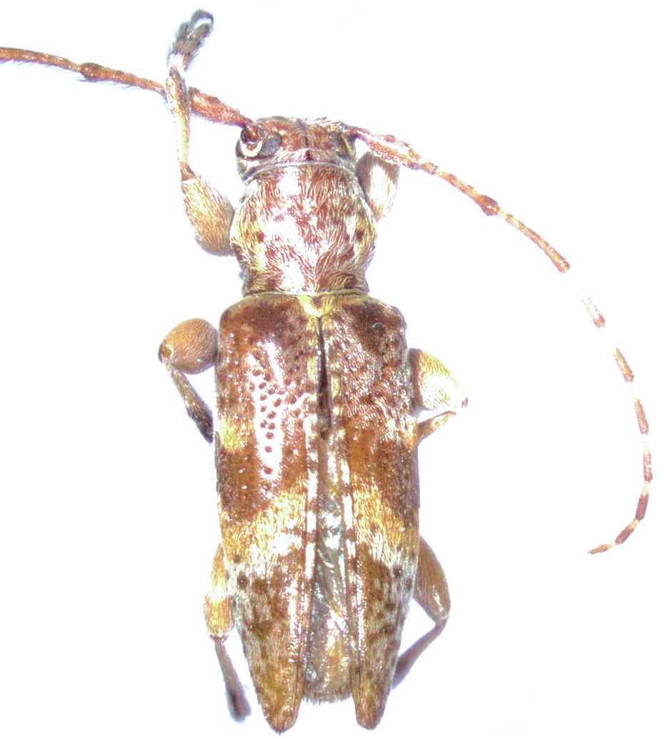 adult Stenellipsis cuneata Locality: 42°32′S 172°24′E / 42.533°S 172.4°E, forest 8m canopy, Boil (11.25ha), Canterbury, New Zealand FIT: 14 days (#1690) Collector, date: RK Didham RK Didham